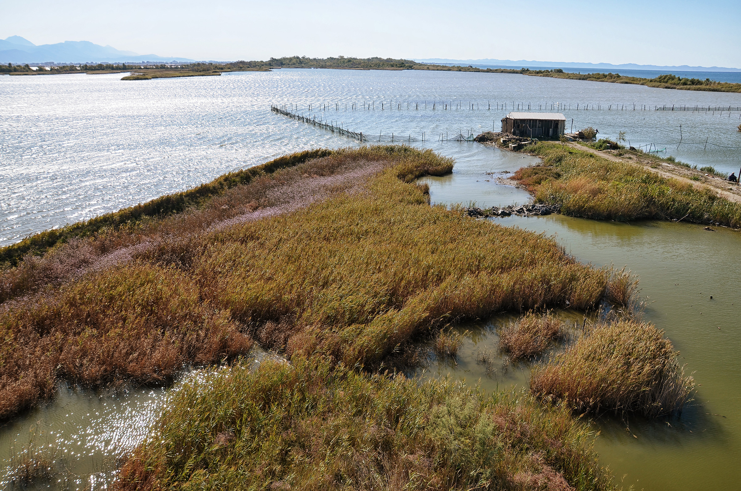 The Kunë-Vaine-Tale Nature Park in Albania